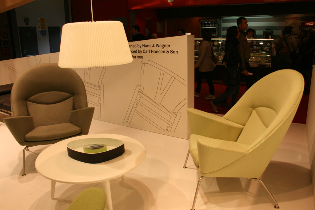 A posthumously produced Hans J. Wegner chair known as CH468 photographed at the Salone del Mobile Milano 2010. source